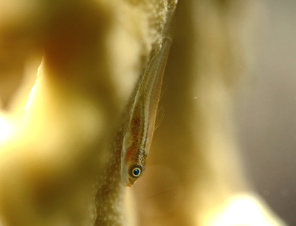 A tiny Michel's ghost goby (Pleurosicya micheli) on a Millepora coral in Réunion island's lagoon.